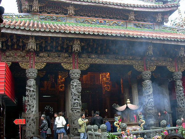 Temple of Sansha. The middle house.